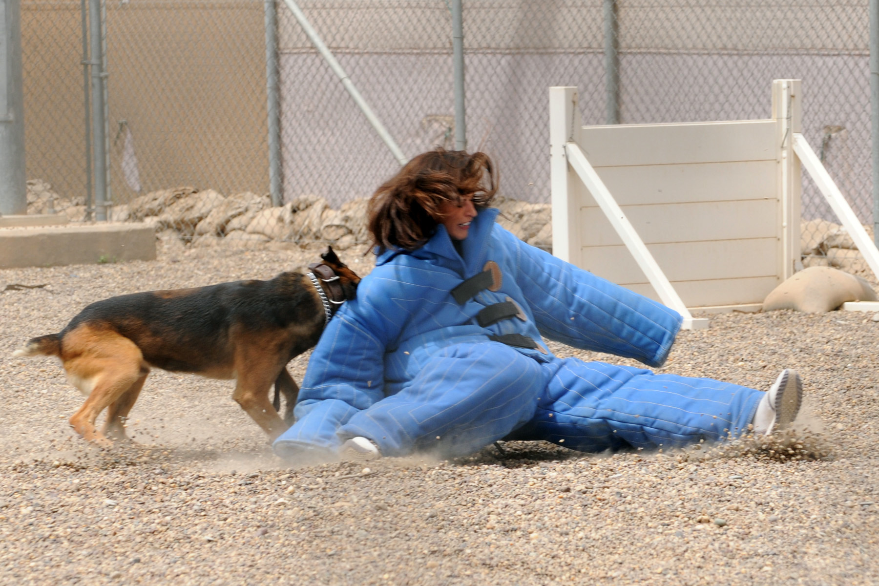 Minnesota Vikings Cheerleader Lissa Steffen experiences first-hand how it feels to be taken down by a military working dog at the Camp Liberty kennels, May 20. Several Vikings cheerleaders visited Soldiers assigned to 501st Military Police Company, 1st Armored Division.